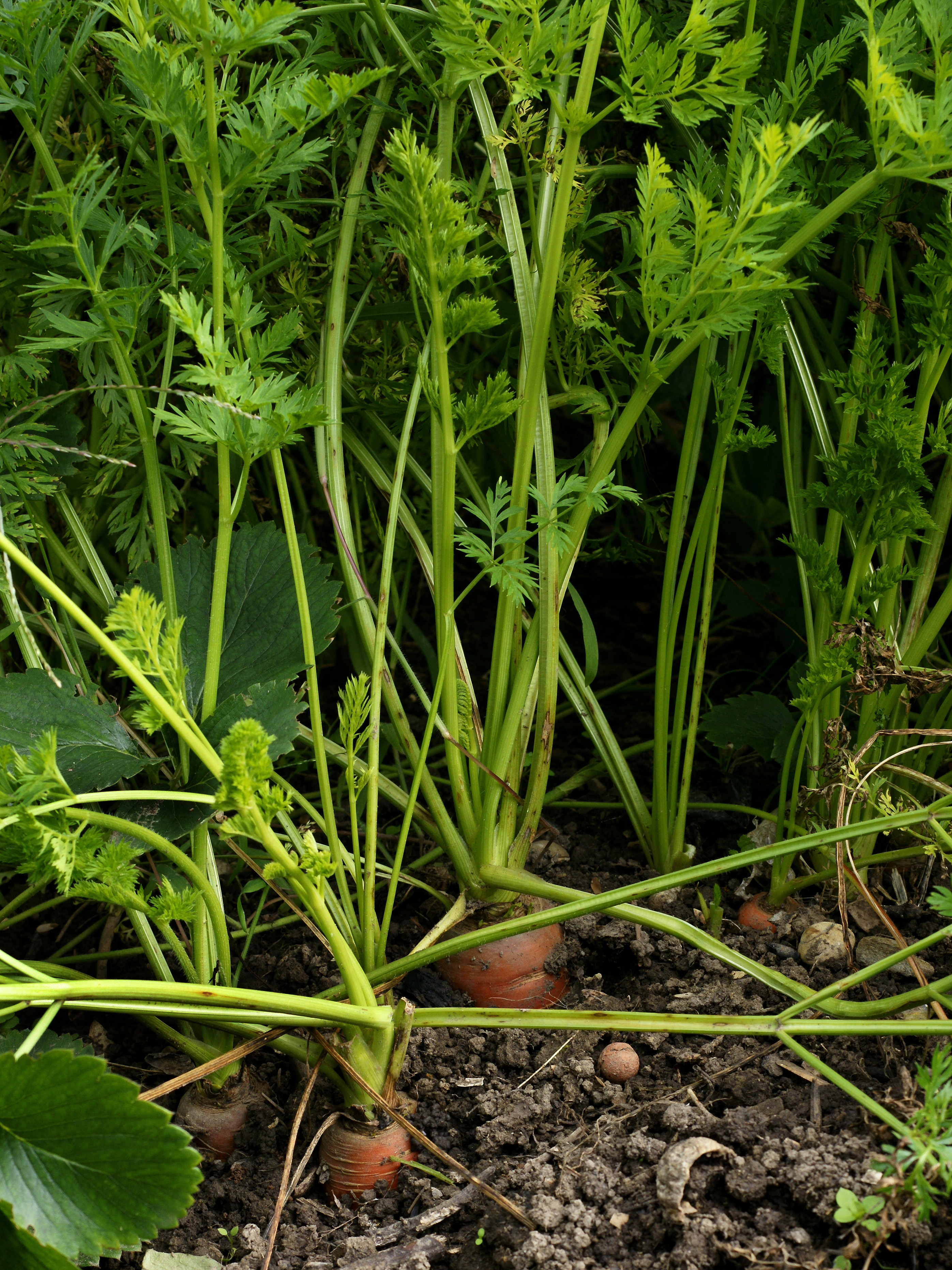 The carrot (Daucus carota subsp. sativus, Etymology: Middle French carotte, from Late Latin carōta, from Greek karōton, originally from the Indoeuropean root ker- (horn), due to its horny shape) is a root vegetable, usually orange or white, or red-white blend in colour, with a crisp texture when fresh.